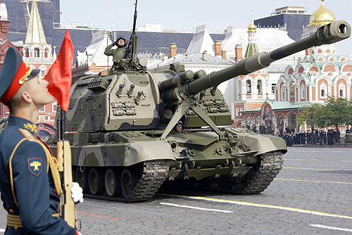 RED SQUARE, MOSCOW. Military parade marking the sixty-third anniversary of Victory in the Great Patriotic War.